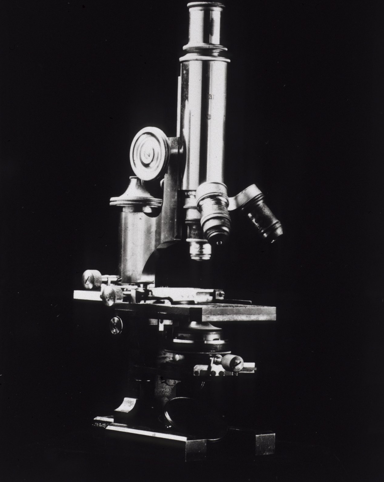 Microscope of Dr. Joseph J. Kinyoun, founder of the Hygienic Laboratory, which evolved into the National Institutes of Health. Credit: National Library of Medicine, NIH